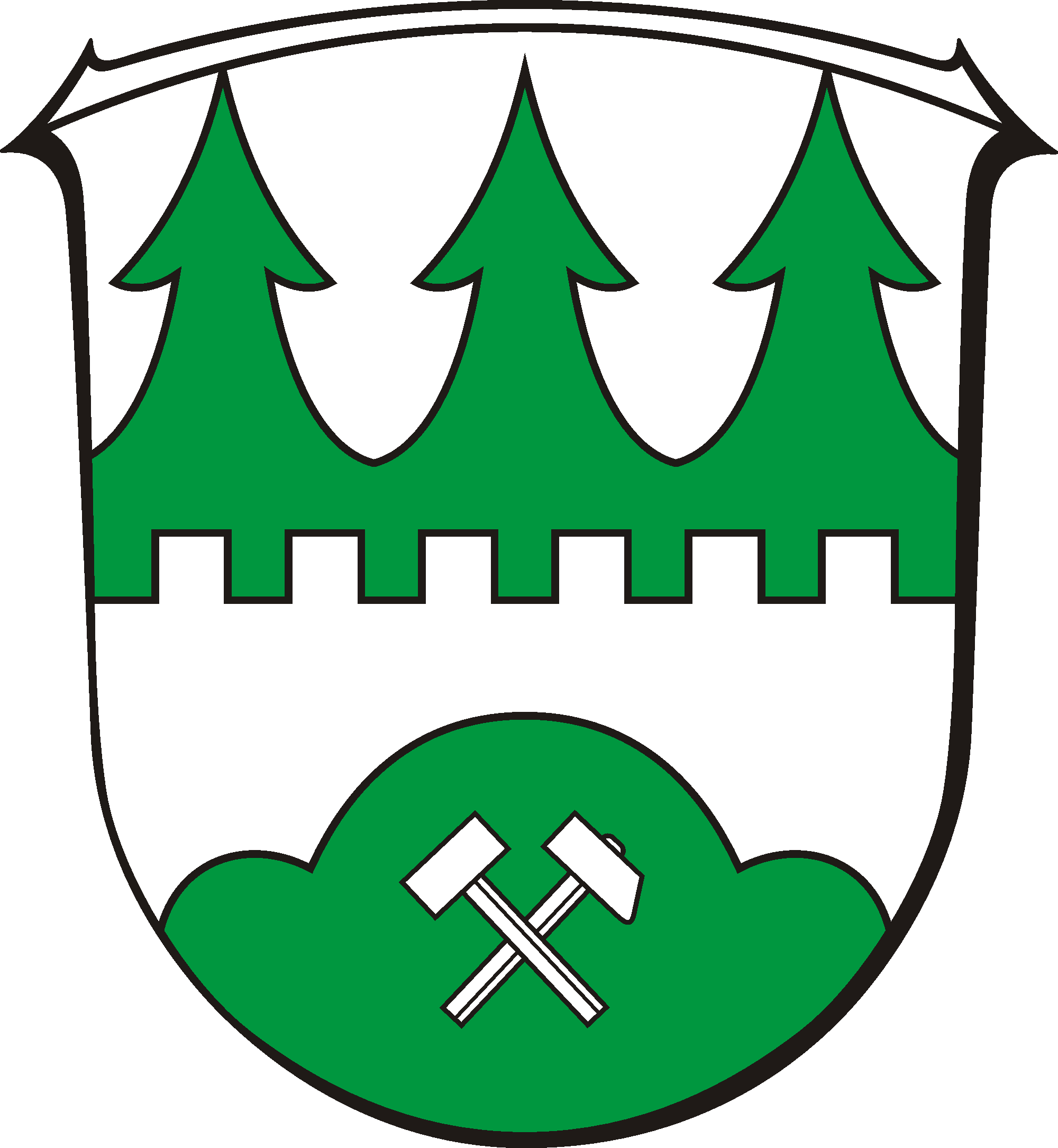 Coat of Arms of Nentershausen